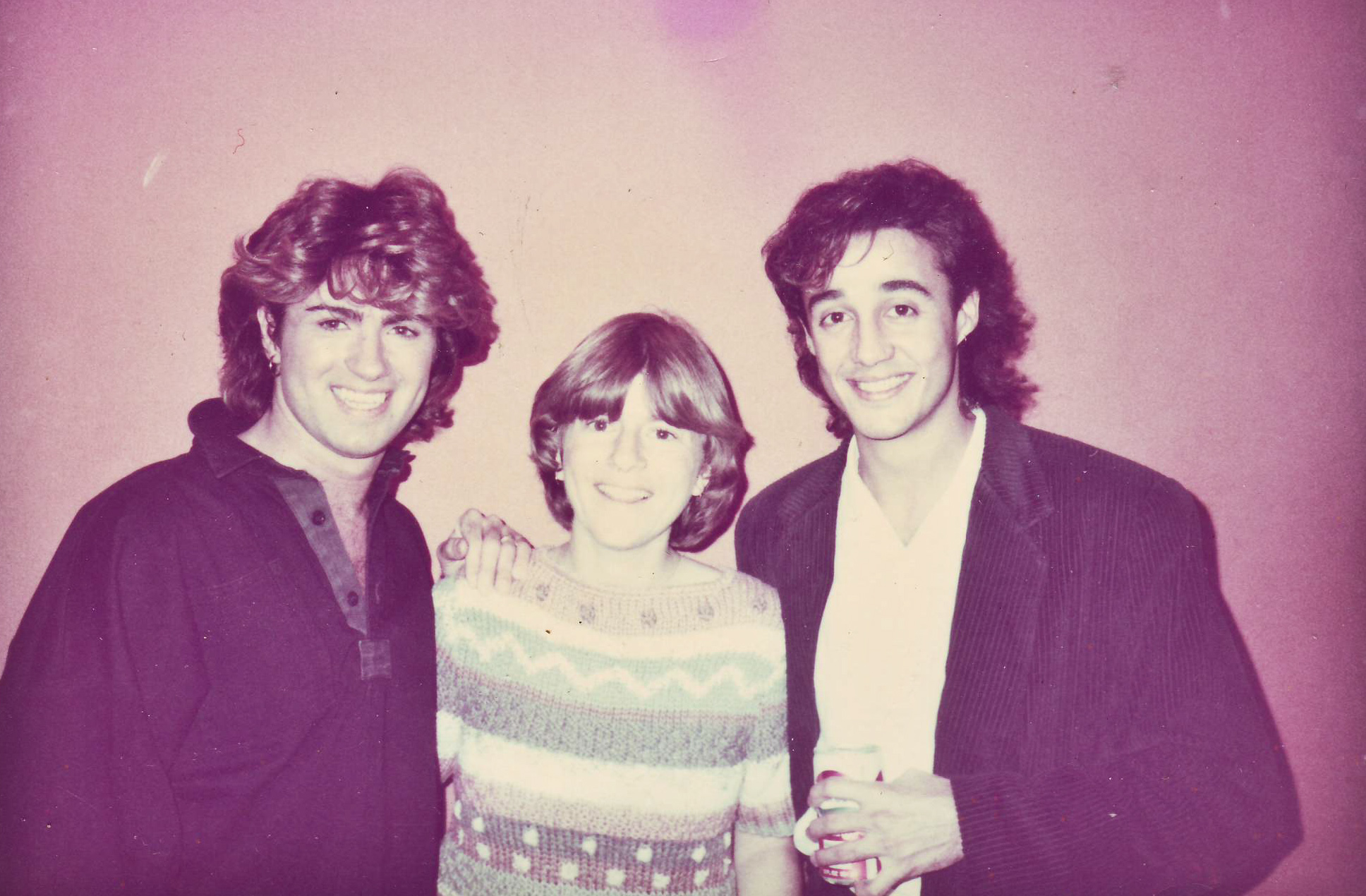 From left to right: George Michael (Wham!), Louise Palanker and Andrew Ridgeley (Wham!).